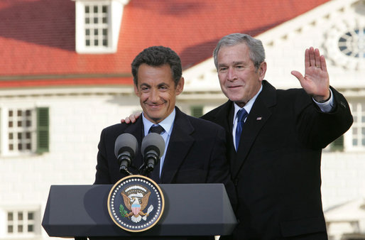 President George W. Bush and President Nicolas Sarkozy of France, shake hands after a joint press availability Wednesday, Nov. 7, 2007, at Mount Vernon, Va. Their meeting at the historic landmark came on the second day of the French leader's visit to the United States.